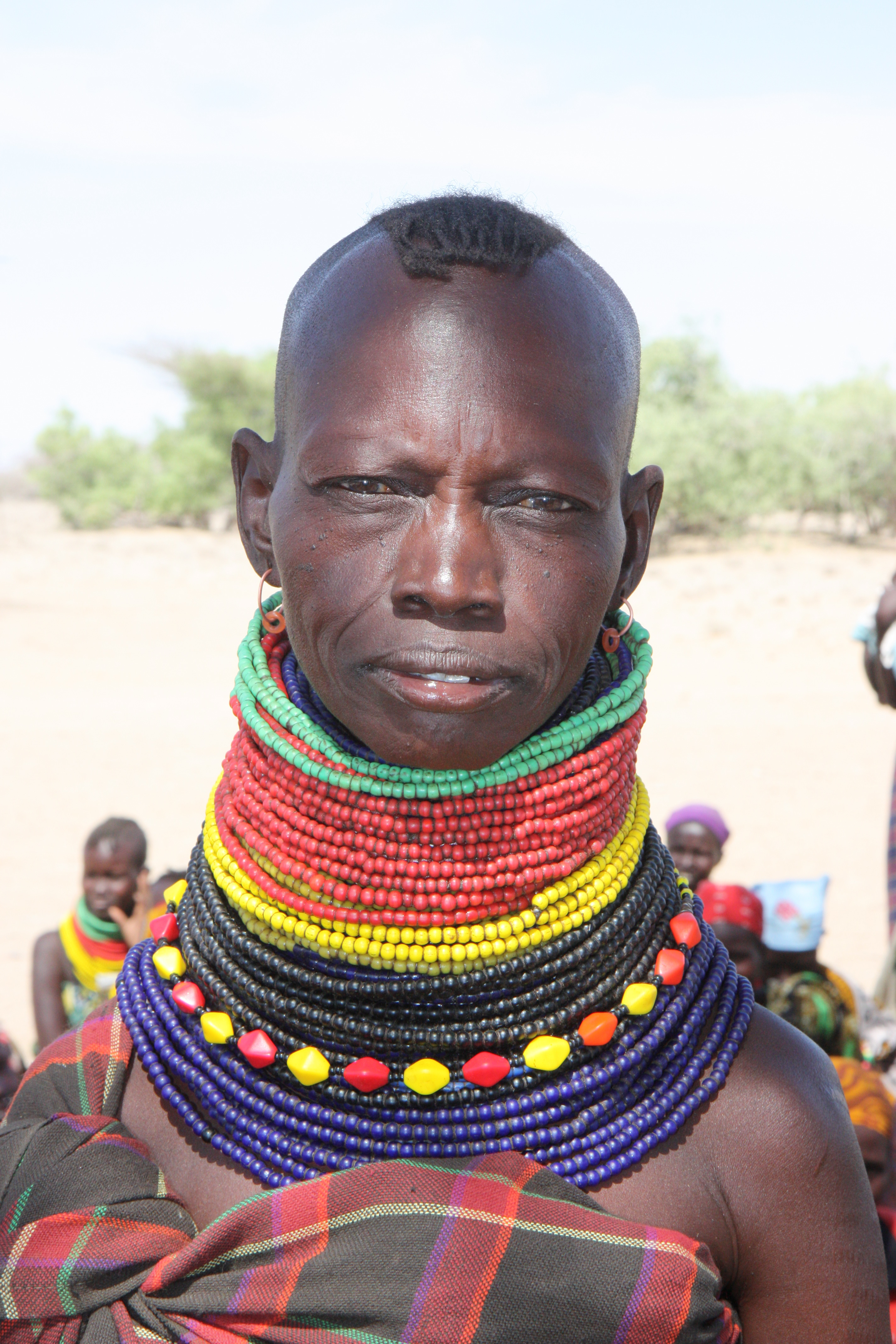 Turkana, in northwest Kenya, has many diverse cultures. The ornaments this woman is wearing are said to represent the asset worth of her family. She is therefore considered wealthy in the community. Photo: Joyce Njuguna/DFID Kenya